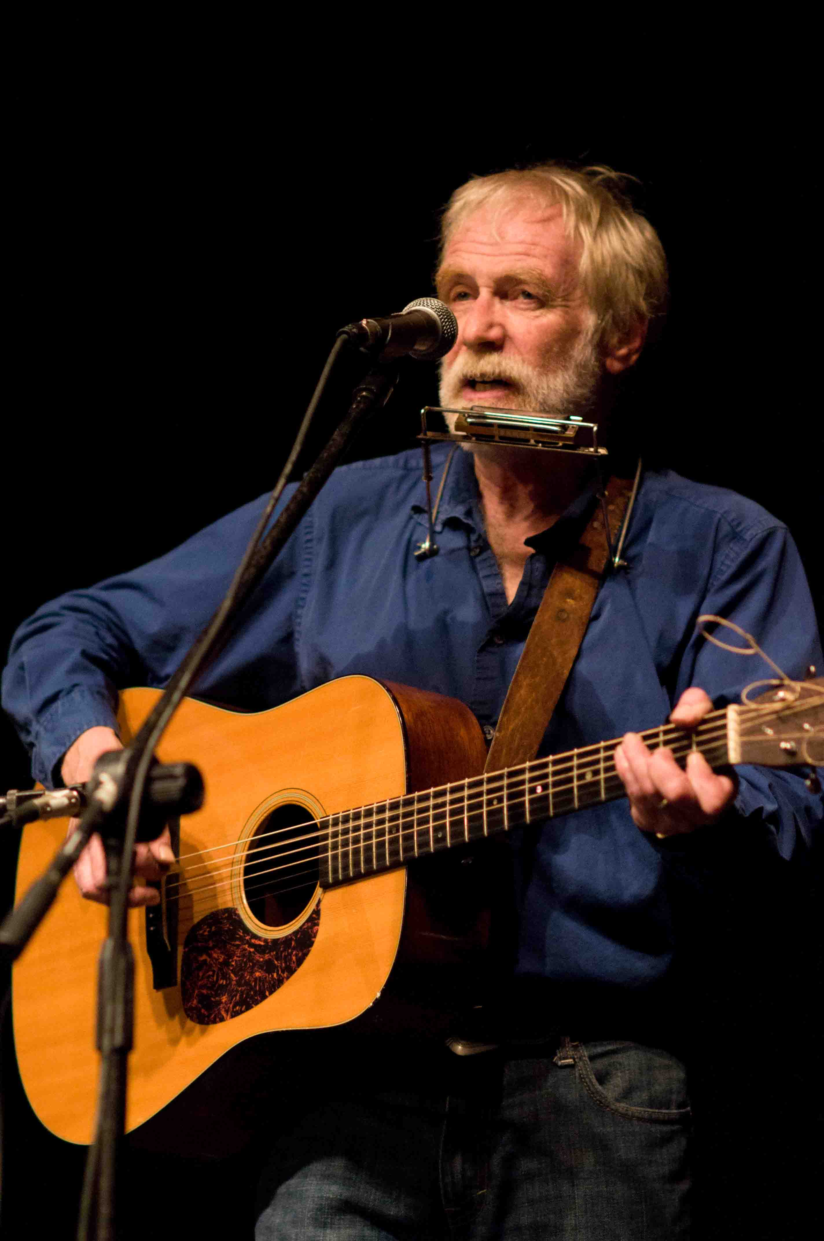 David Mallett performing at the Brewer Middle School Maine 23 April 2011